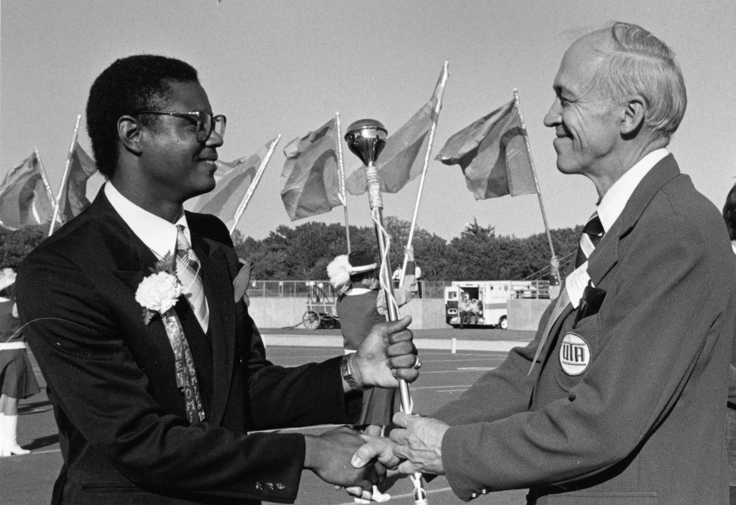 University of Texas at Arlington homecoming; homecoming king Rodney Lewis with University President Wendell Nedderman. Lewis became the first UTA homecoming king in the school's history.